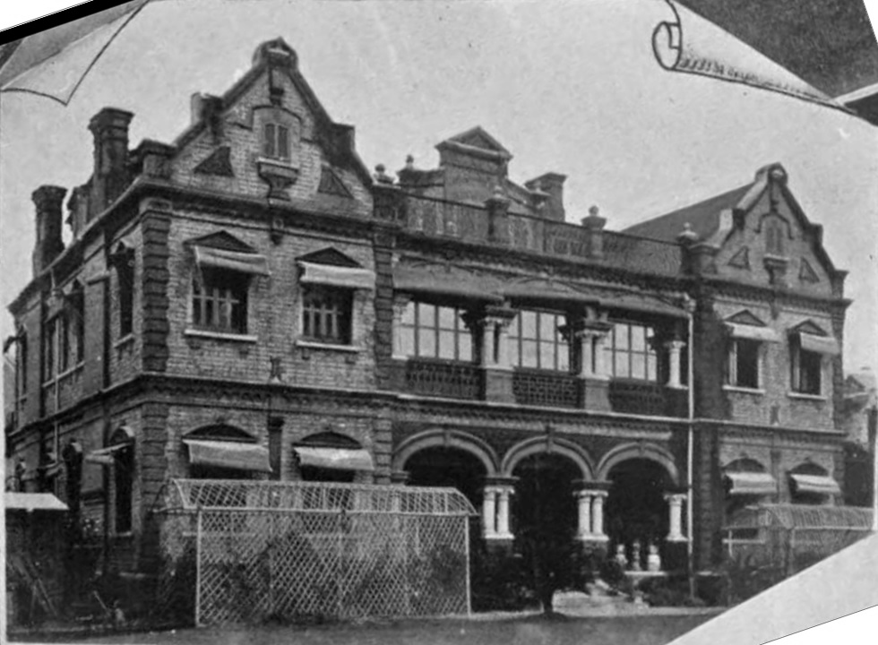 A mansion on Burkill Road, Shanghai International Settlement